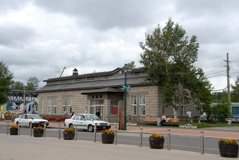 Biei Station, the main station of Biei, a popular sightseeing spot in central Hokkaido, Japan